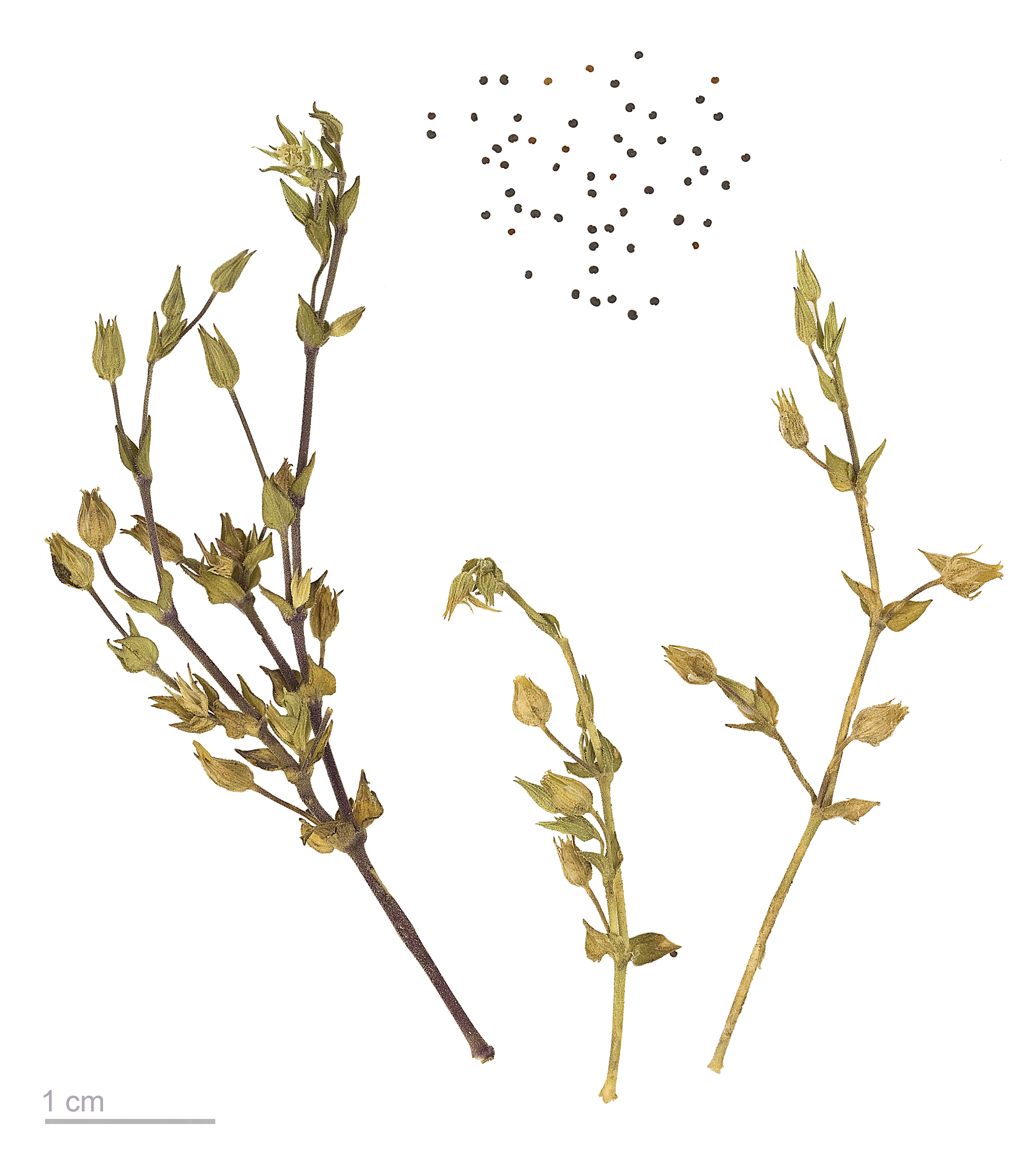 Thyme-leaved Sandwort , fruits and seeds